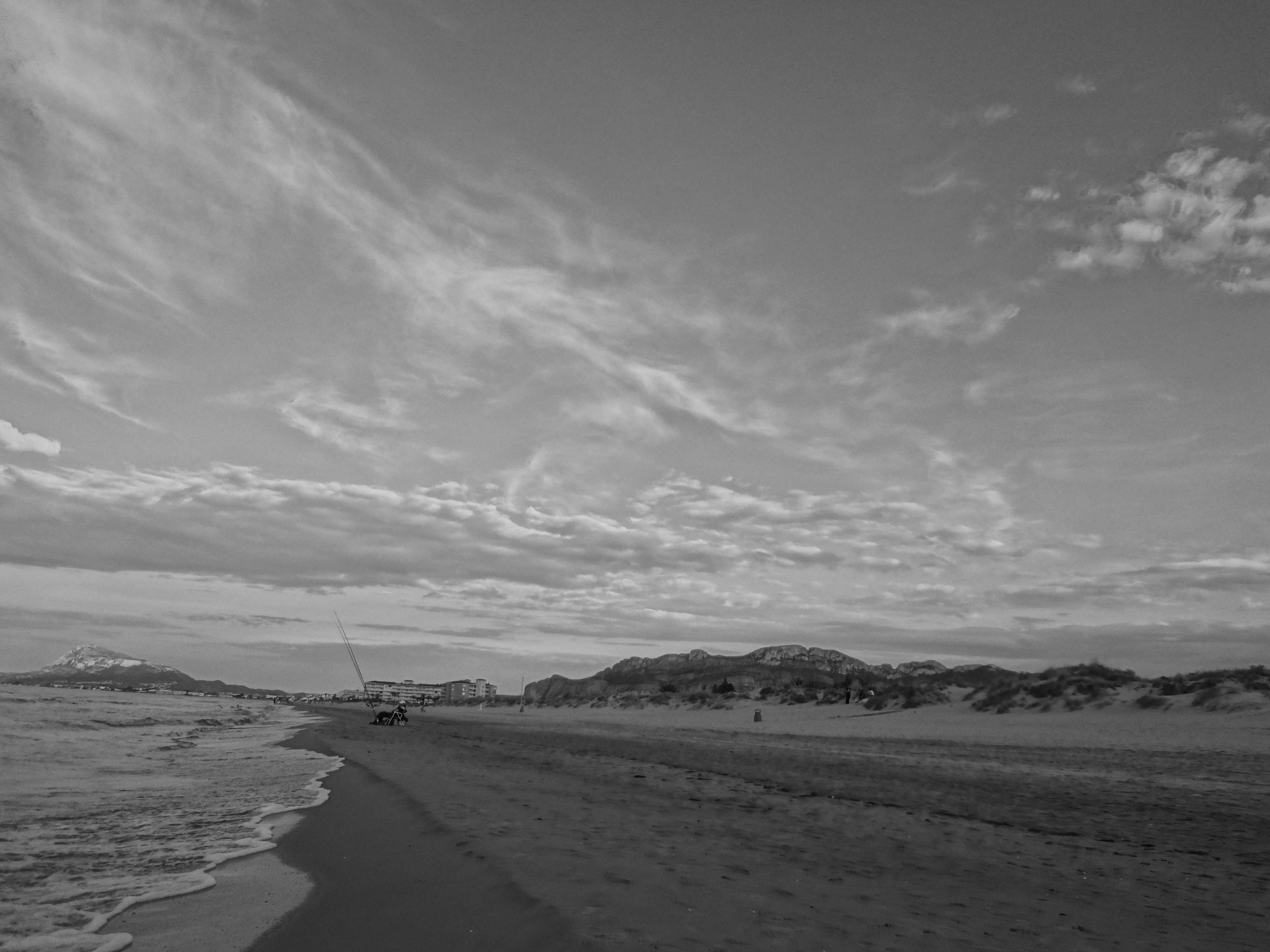 Fisherman at sunset, Mediterranean Sea in Oliva, Valencia Region of the Spain, photographed by professional photographer David Adam Kess, black and white, no digital edits